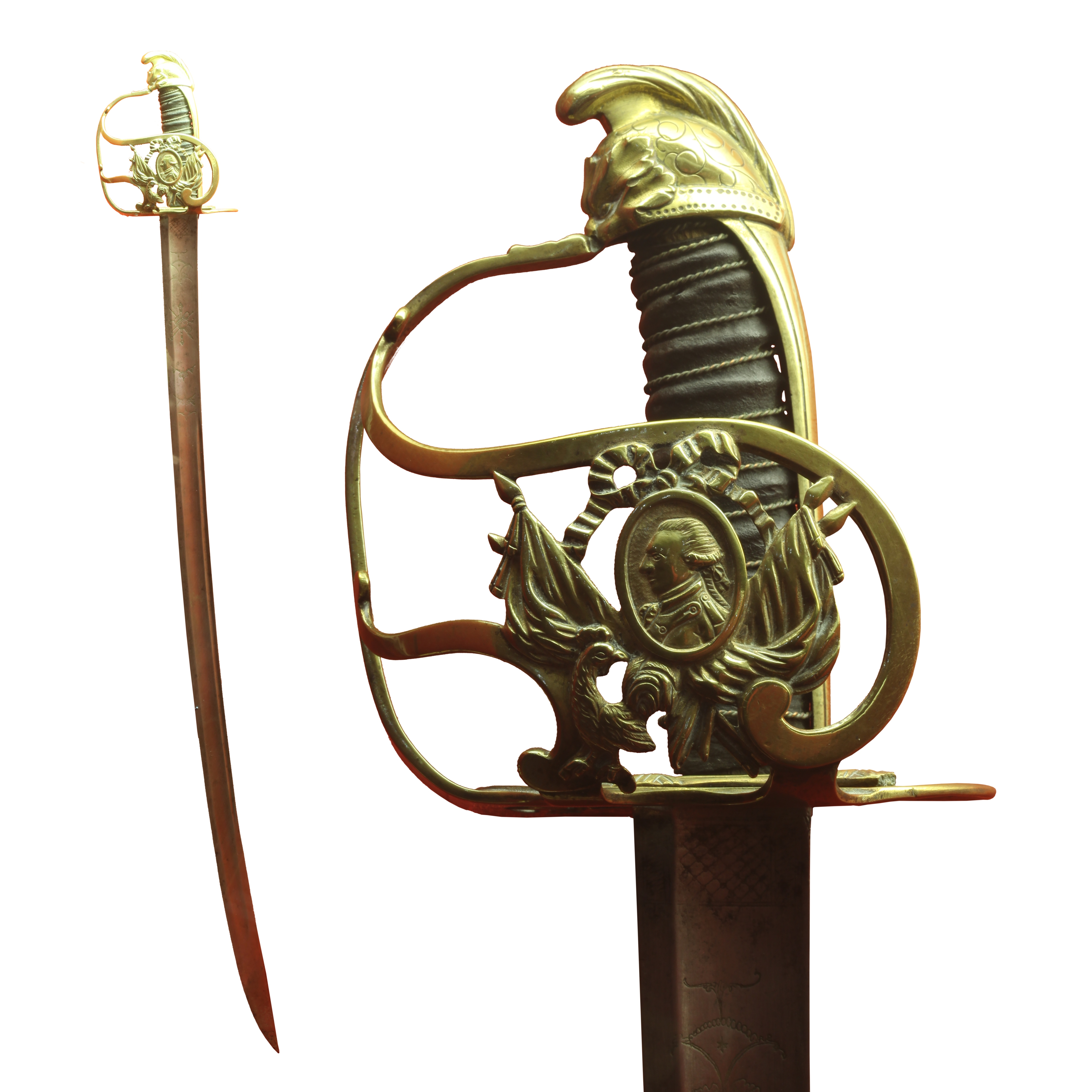 "Petit Montmorency à coquille" sabre of an officer of the Garde nationale, with a figure of Lafayette. On display at Neuchâtel Musée d'art et d'histoire